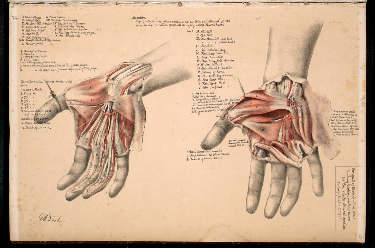 "Dissection of the hand" by George Henry Ford, chromolithograph, "Illustrations of dissections"